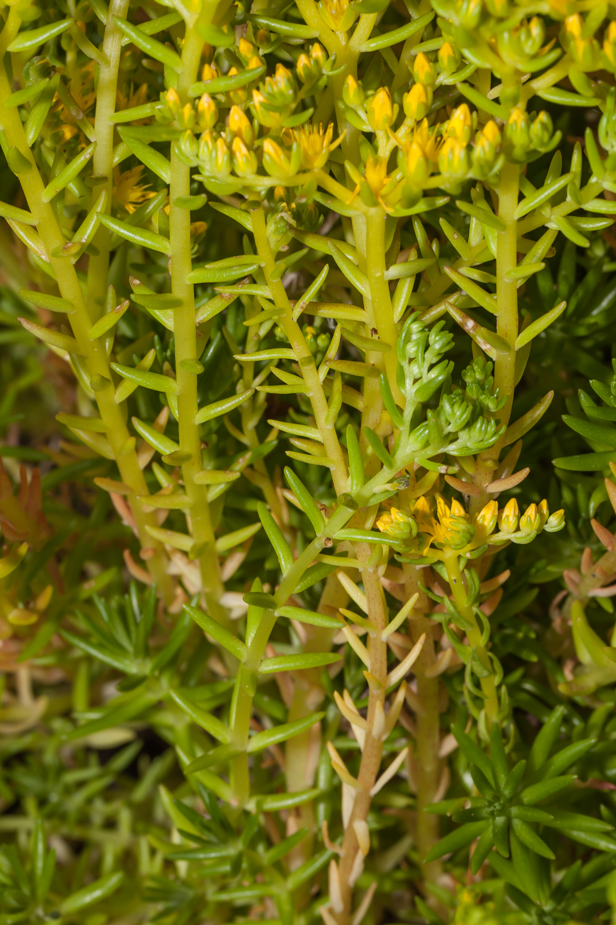 Sedum montanum in Valverde, Vilarromarís, Oroso, Galicia, SpainGalego: Sedum montanum en Valverde, Vilarromarís, Oroso, Galiza Determinada en por Alfredo Barra, Angela Canet.